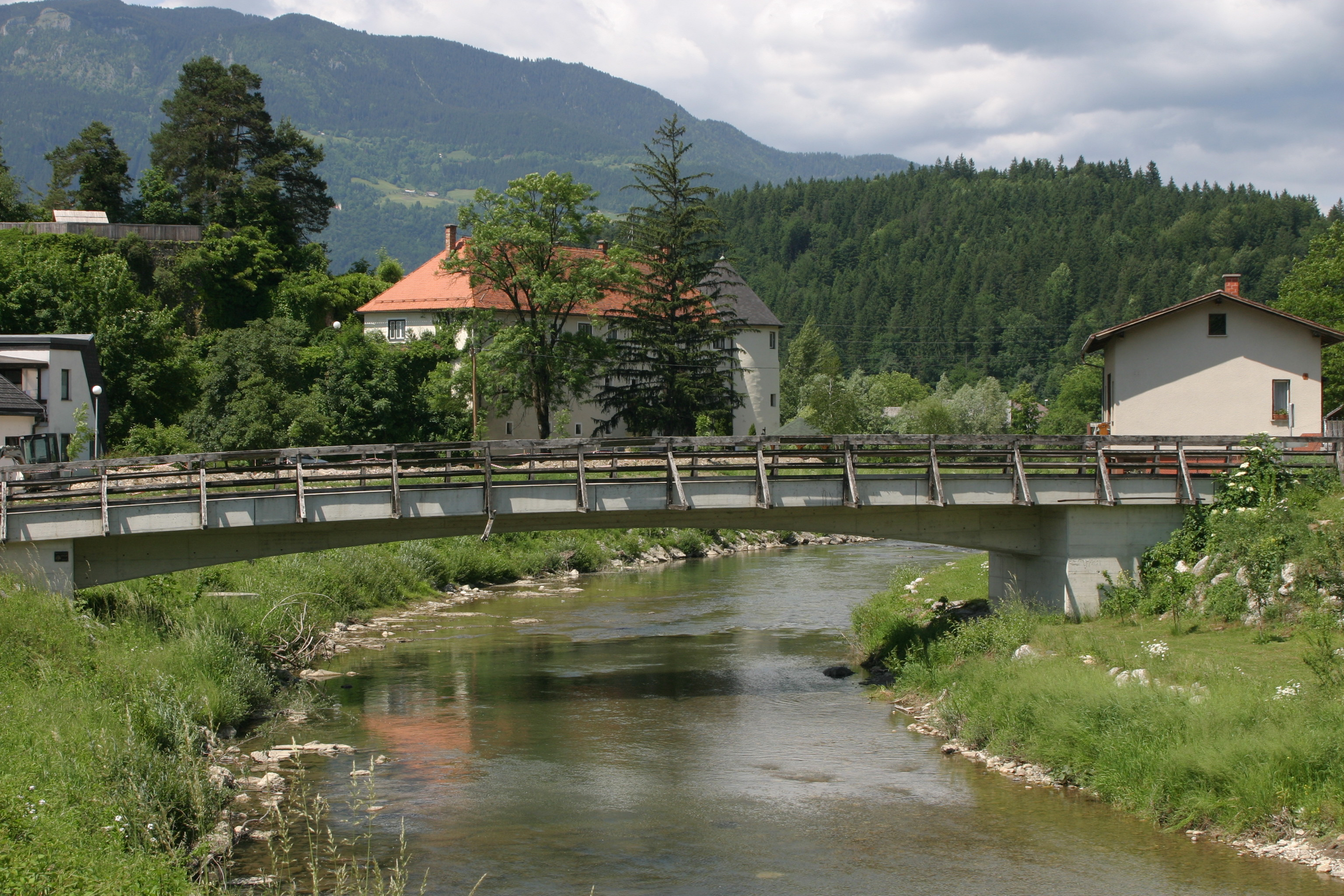 The bridge on the river Dreta in Nazarje